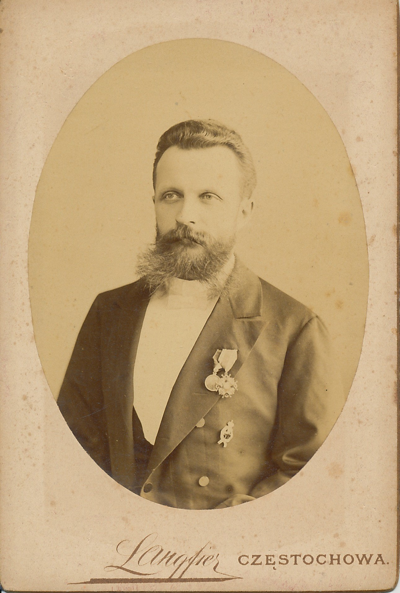 It's my own faithful copy of Bolesław Masłowski photograph, of 1900